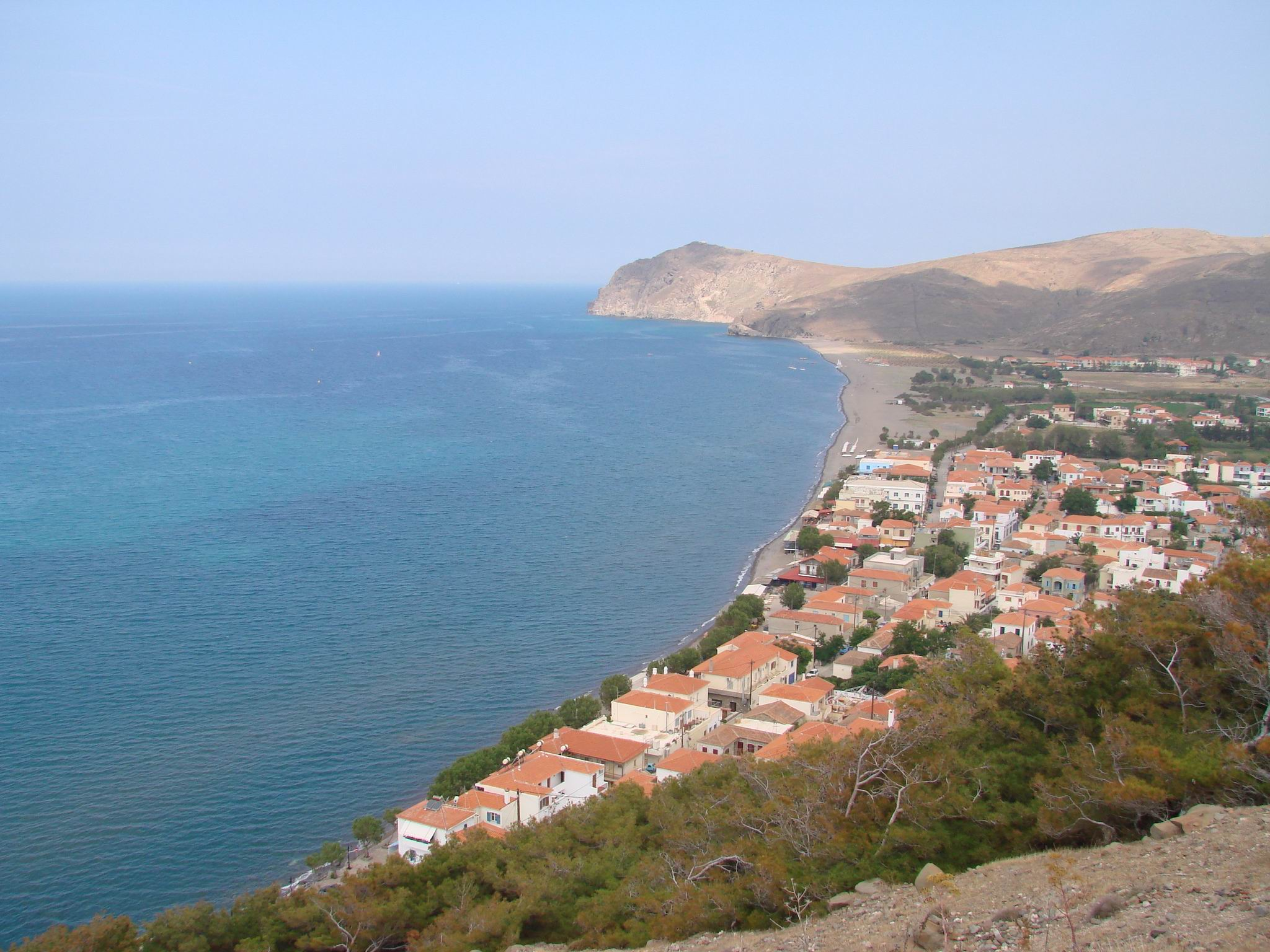 Skala Eresou, view from Vigla